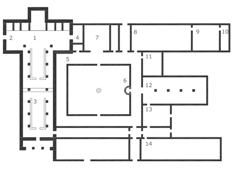 Cistercian plan